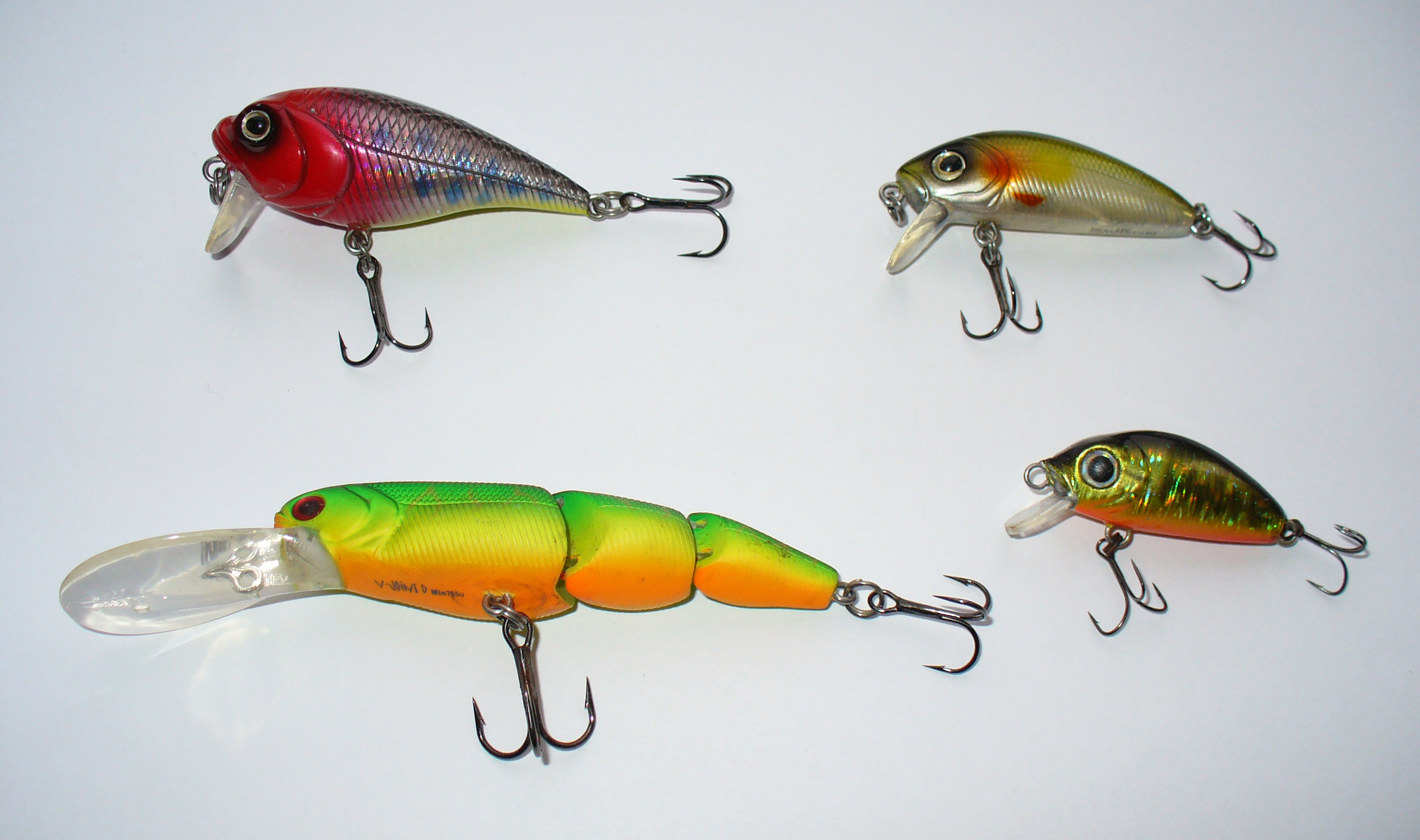 Wobbler (fishing equipment)